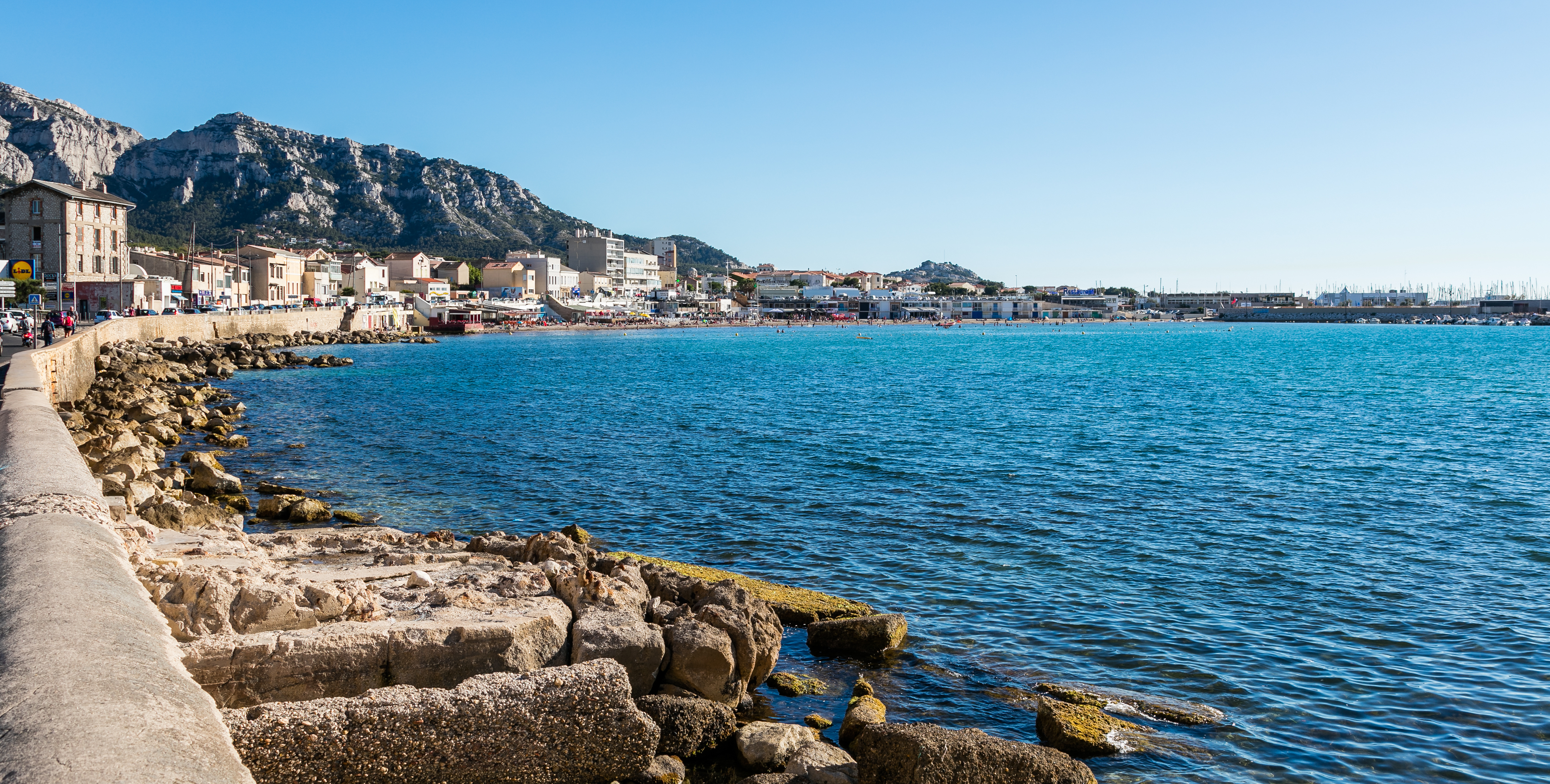 Beach of the Red Tip, Marseille, France